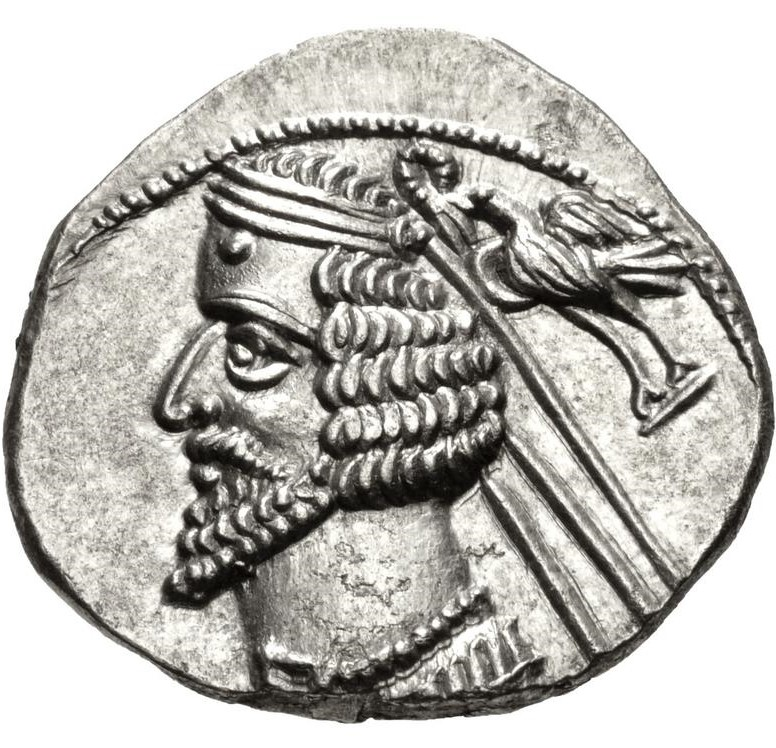 Drachm of Phraates IV, Mithradatkirt mint.